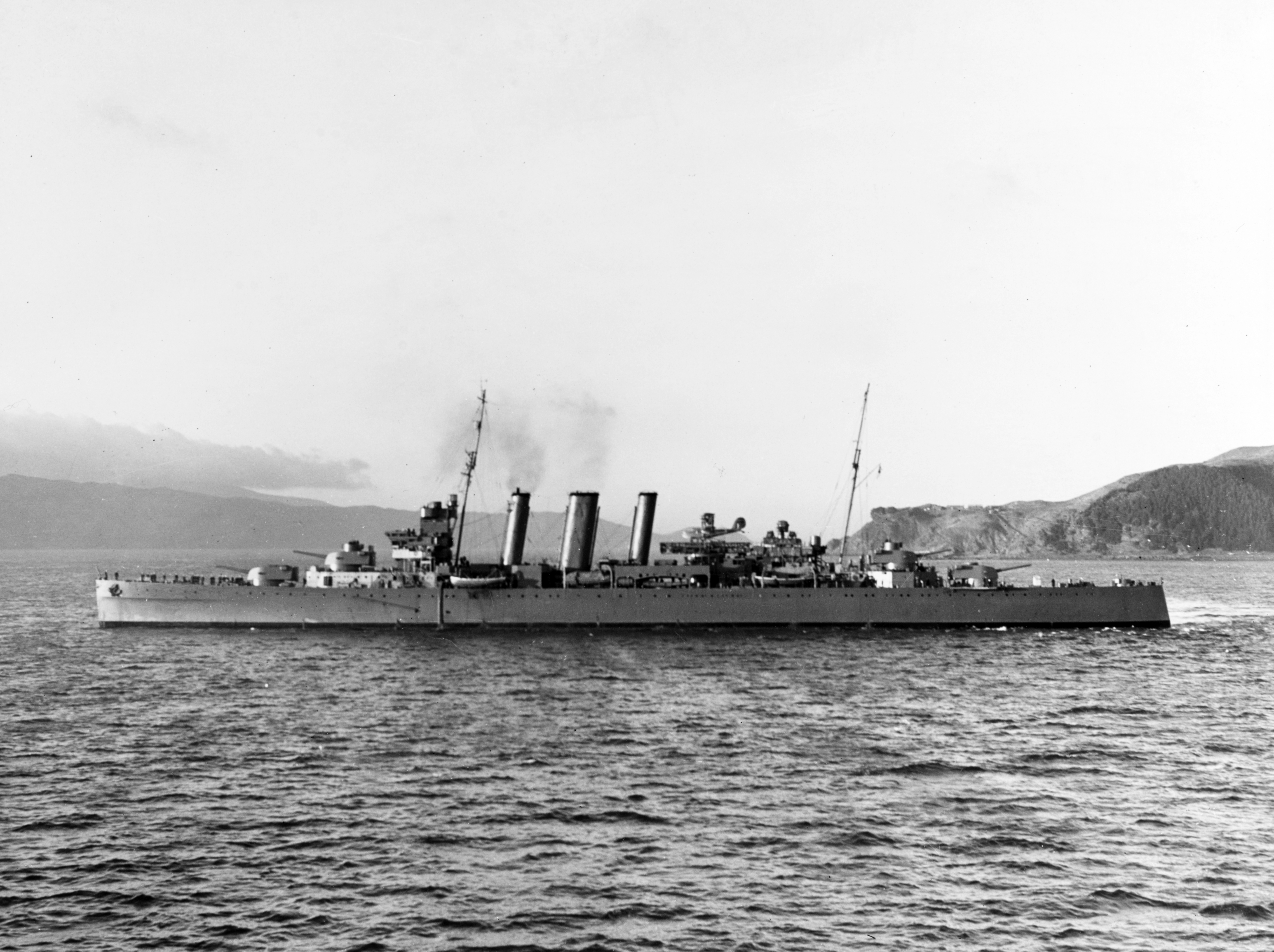 The Royal Australian Navy heavy cruiser HMAS Canberra (D33) leaving Wellington, New Zealand, on 22 July 1942. She was en route to participate in the invasion of Guadalcanal and Tulagi.